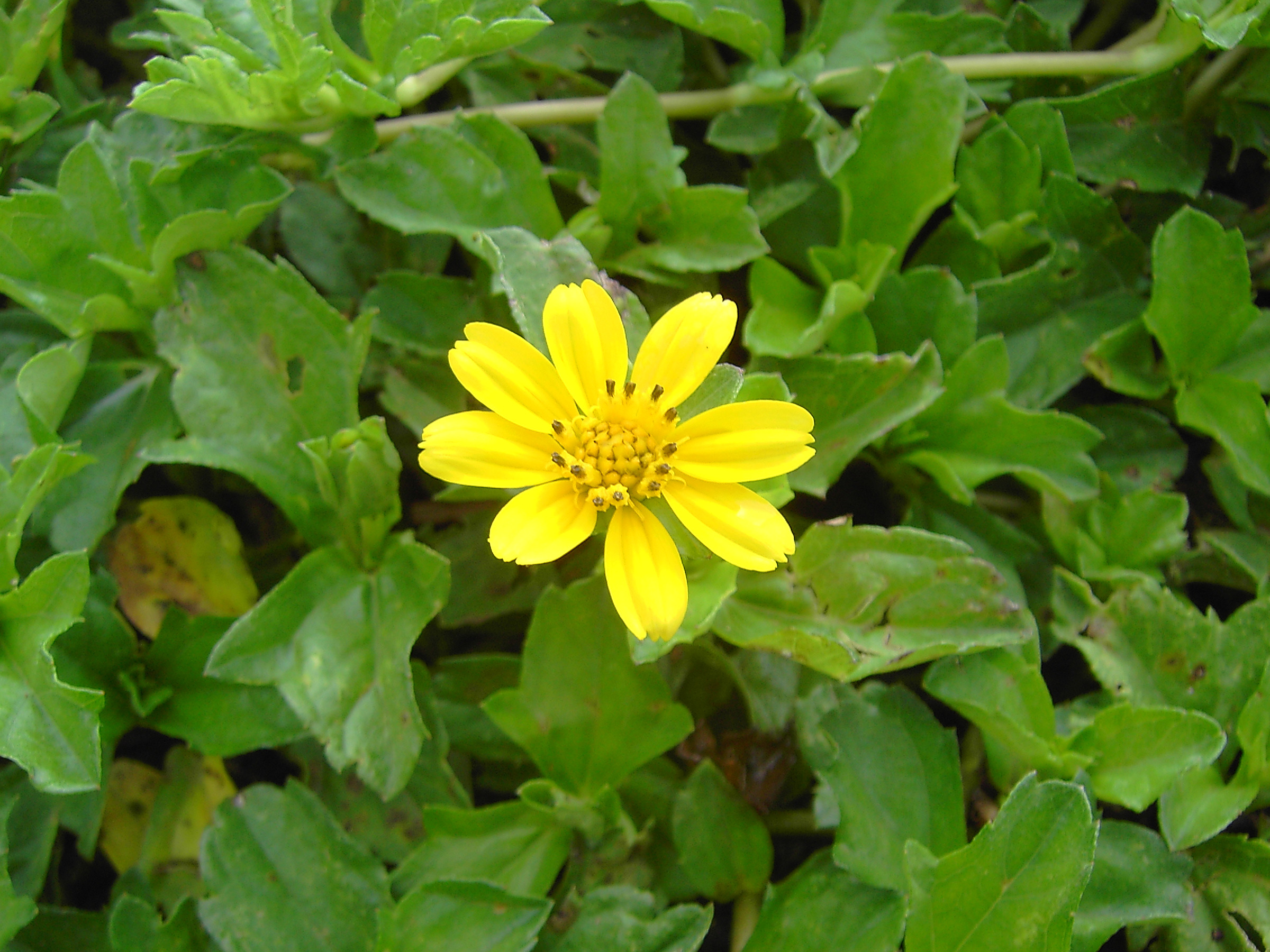 Bay Biscayne Creeping-oxeye at Woodford Hill Beach, Dominica, W.I.